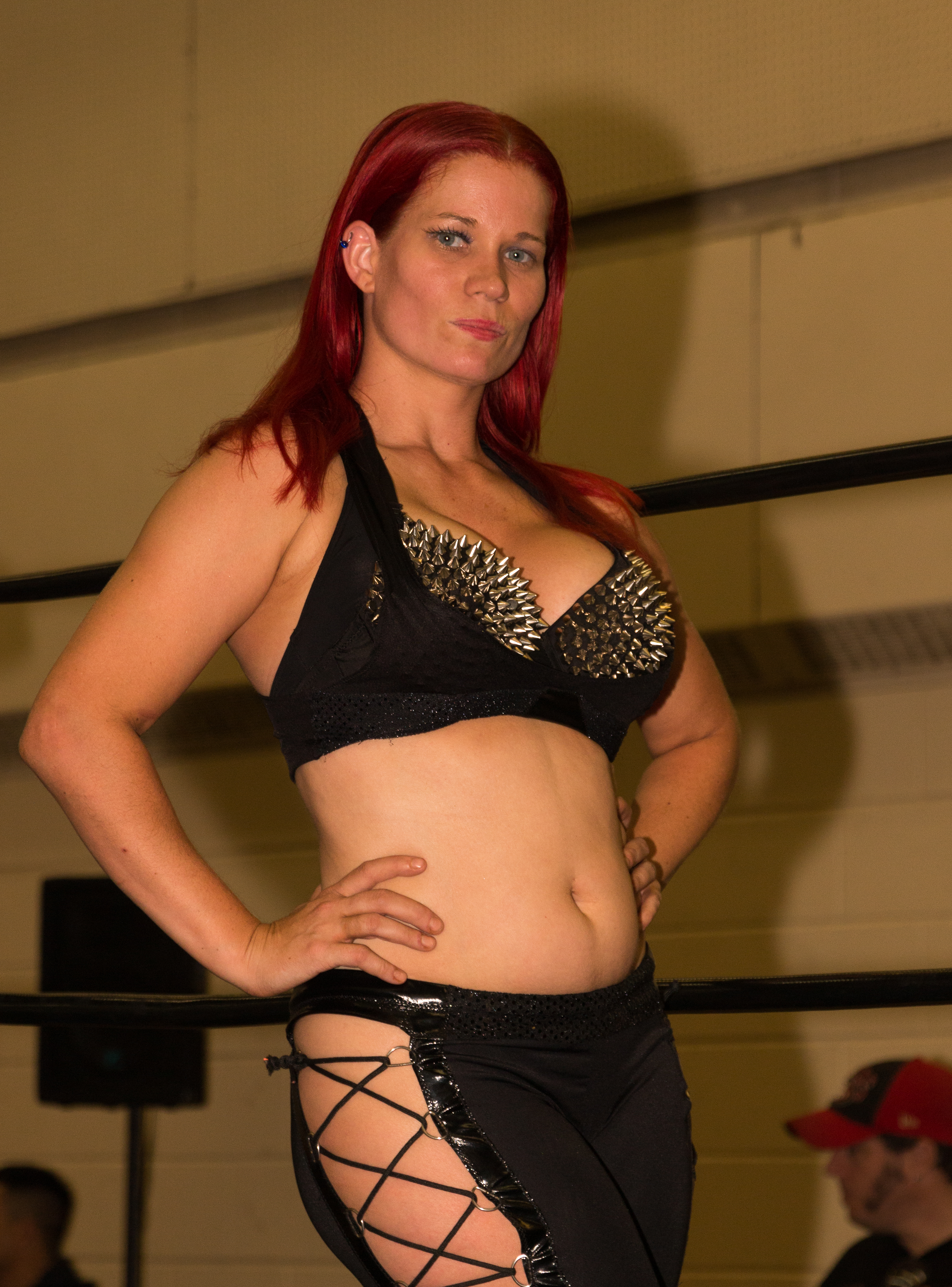 Sassy Stephie in the ring at Smash Wrestling's Canusa 2015 show in Etobicoke, ON